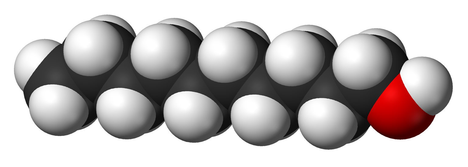 Ball and stick model of the 1-Decanol molecule.